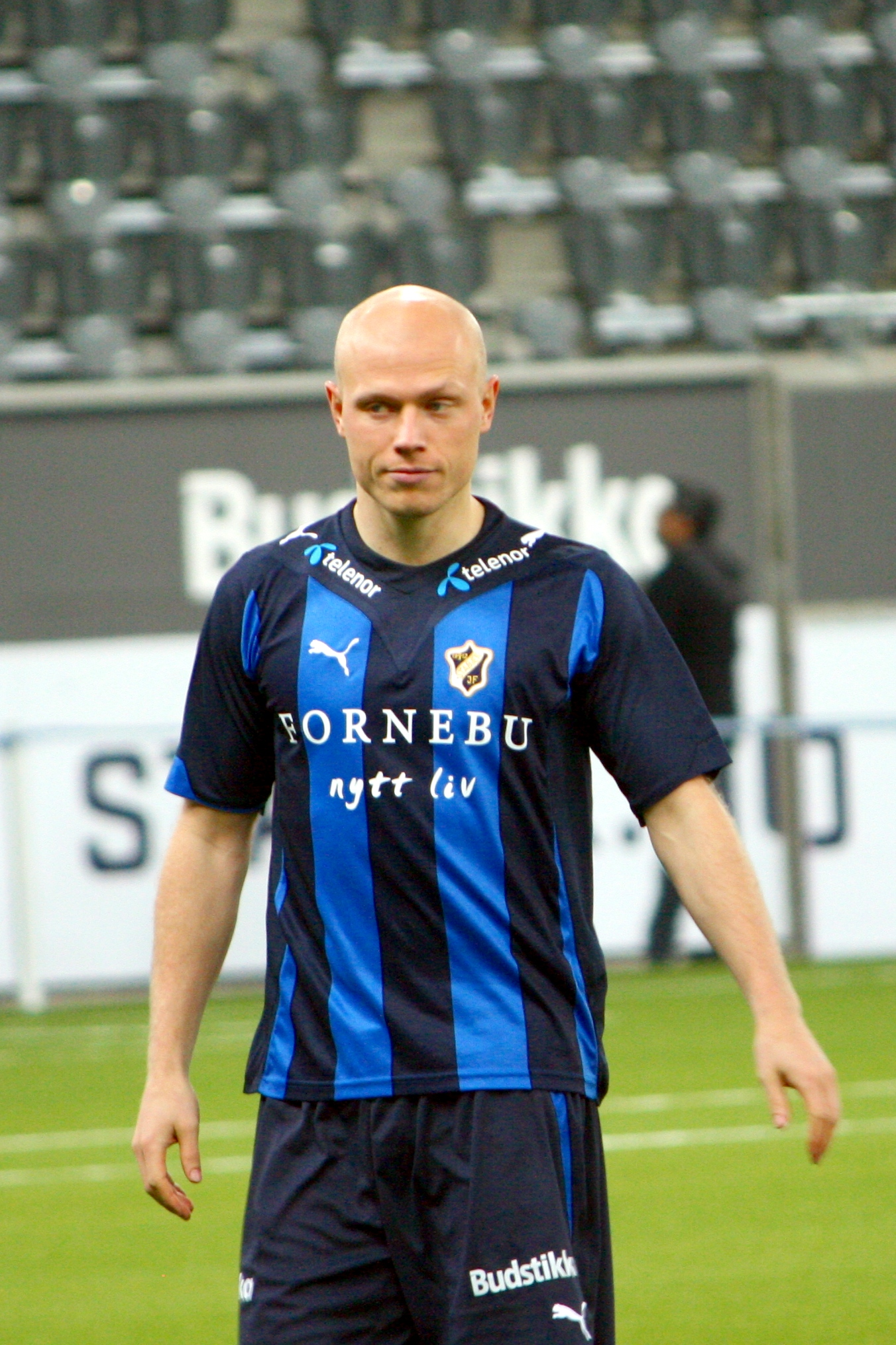 Danish footballer Christian Keller.